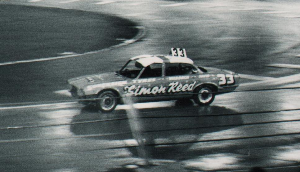 Jaguar XJ6 of Simon Reed at Wimbledon Stadium